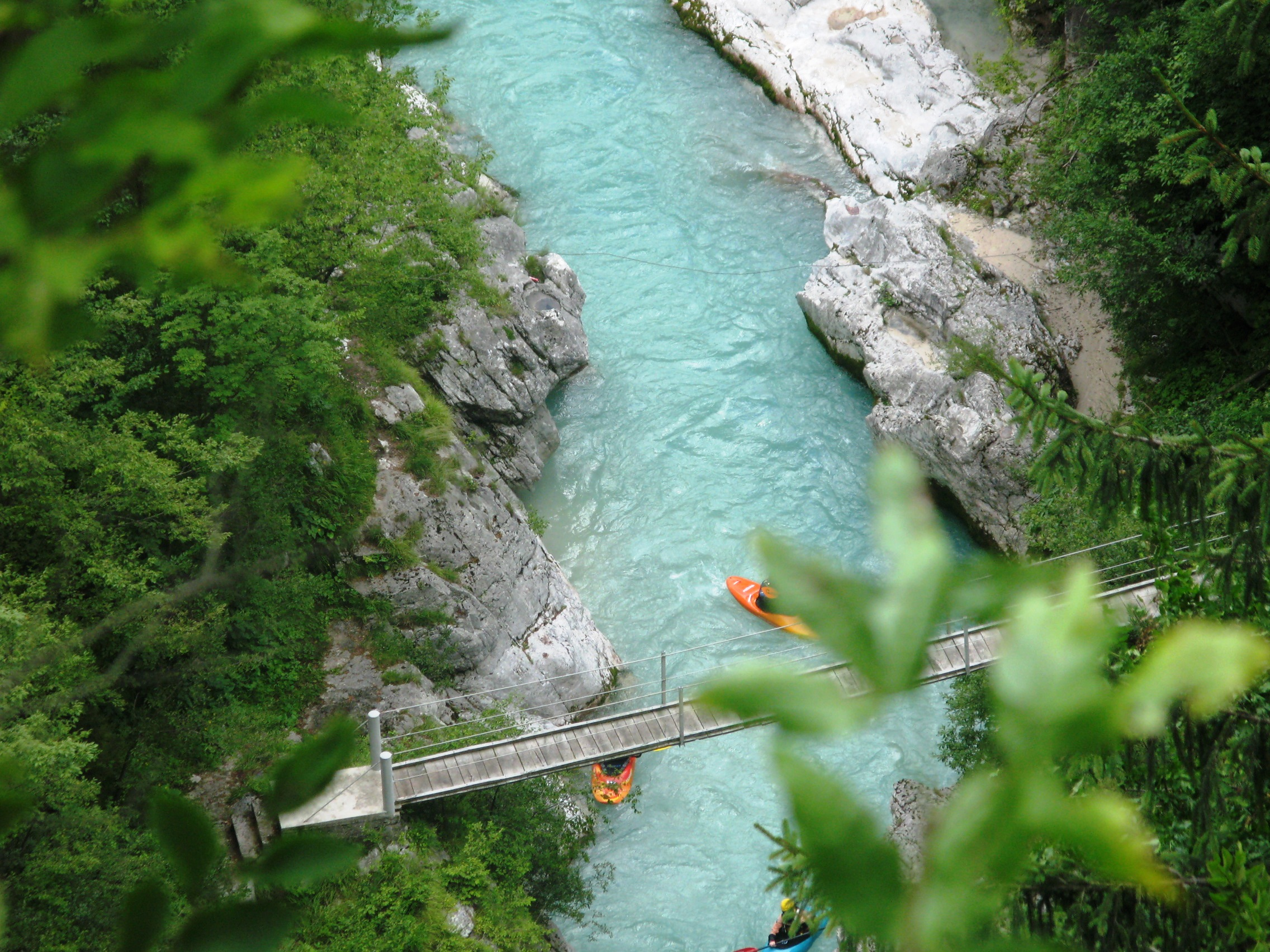 Koritnica River below the fortress Kluže